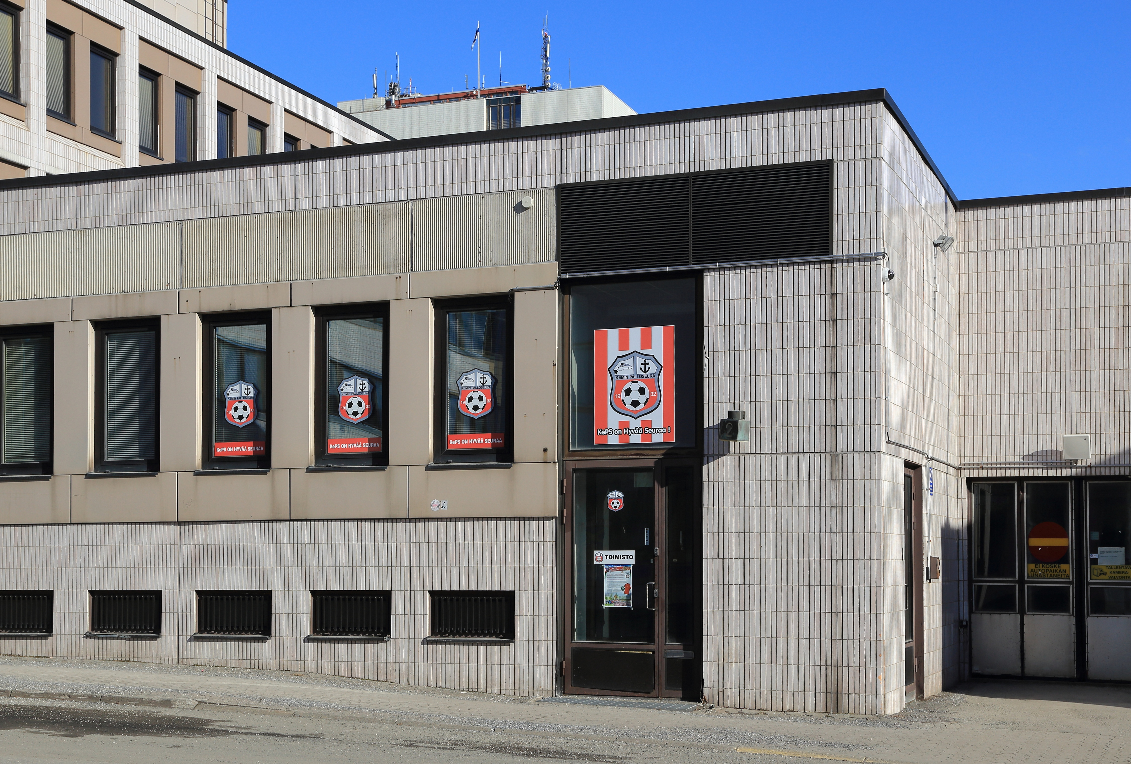 The office of Kemin Palloseura assopciation football club of Kemi, Finland.